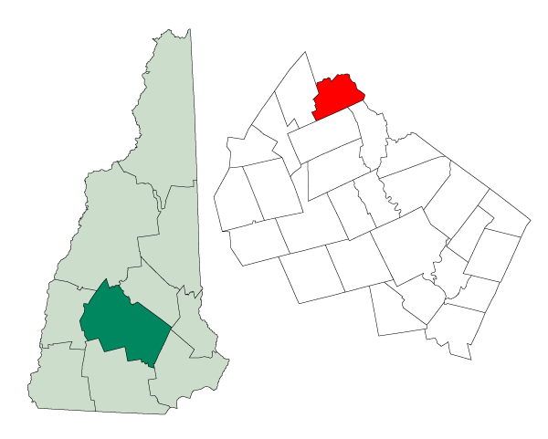 Map of a municipality in Merrimack County, New Hampshire